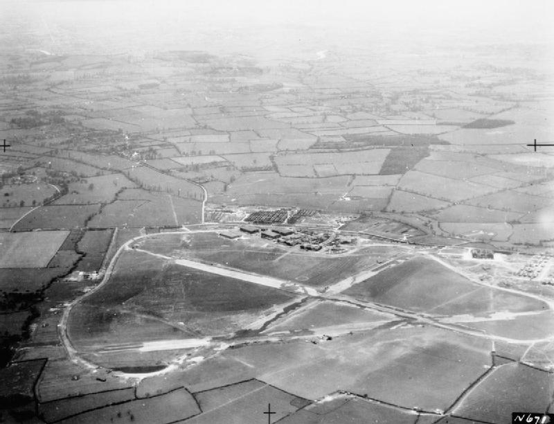 Aerial photograph of Staverton aerodrome.